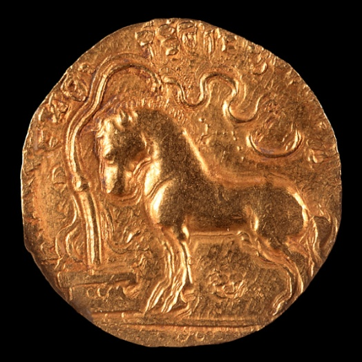 India, circa 335-376 Tools and Equipment; coins Gold Purchased with funds provided by Dr. and Mrs. A. J. Montanari (M.84.110.1) South and Southeast Asian Art